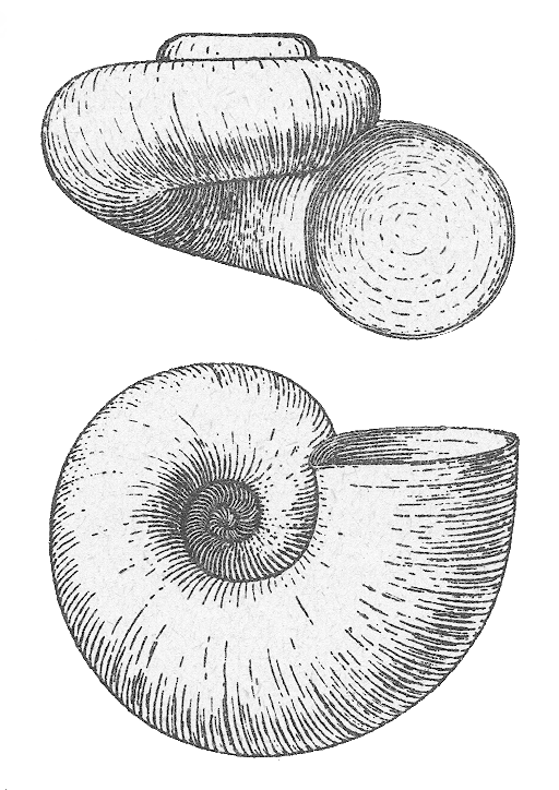 Valvata macrostoma; Freshwater prosobranch snail